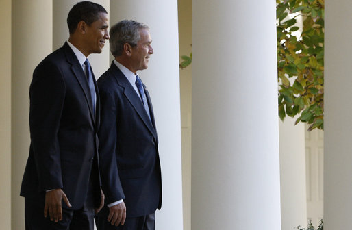 President George W. Bush and President-elect Barack Obama pause for photographs Monday, Nov. 10, 2008, on the Colonnade as the President welcomed his successor and Mrs. Michelle Obama to the White House.